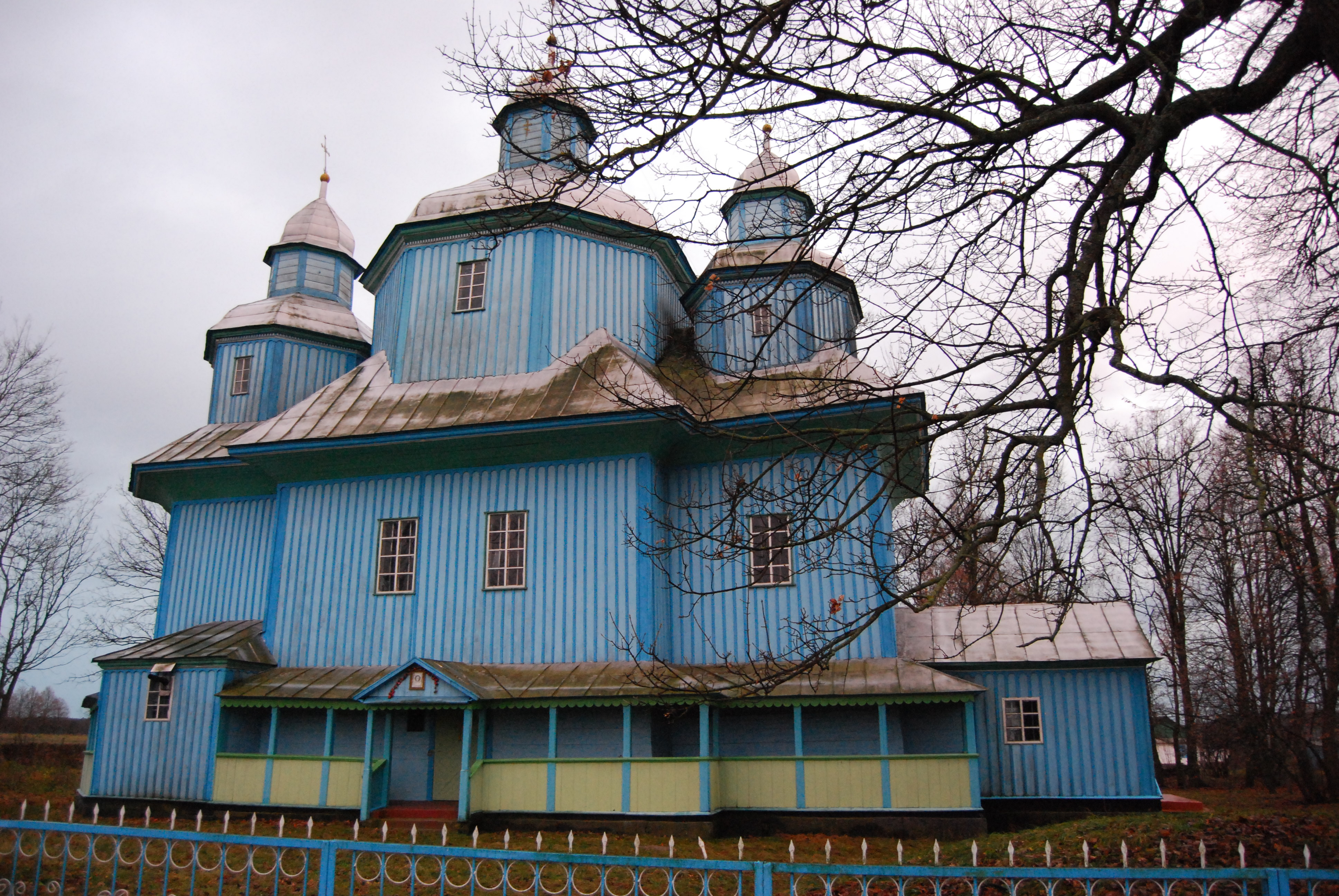 Stydyń Wielki - orthodox church.1